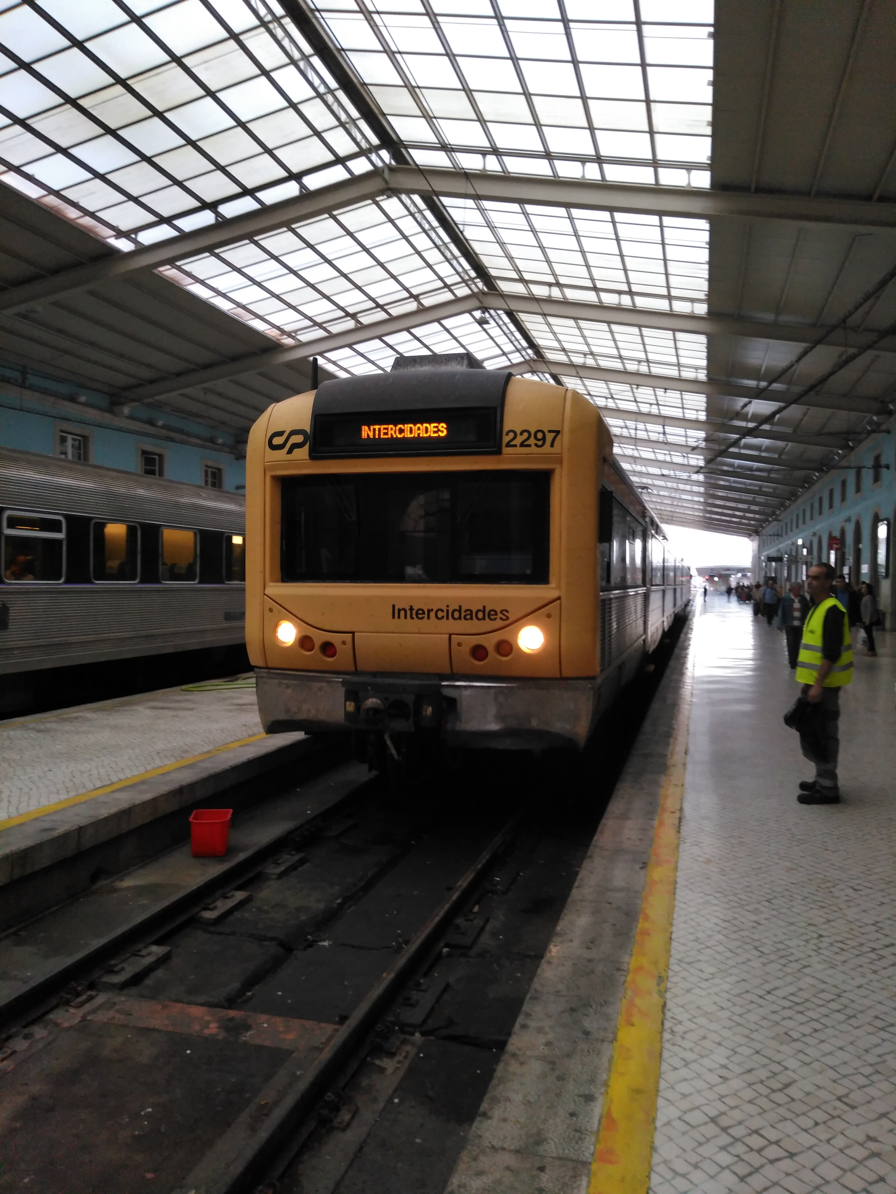 Intercidades after arriving